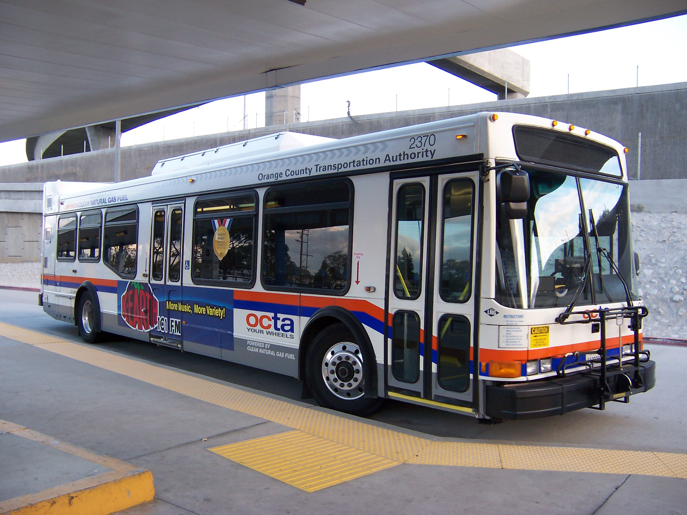 NABI model 40.09 LFW low-floor liquefied natural gas powered bus of the Orange County Transportation Authority, photographed at the bus station in Fullerton, California.